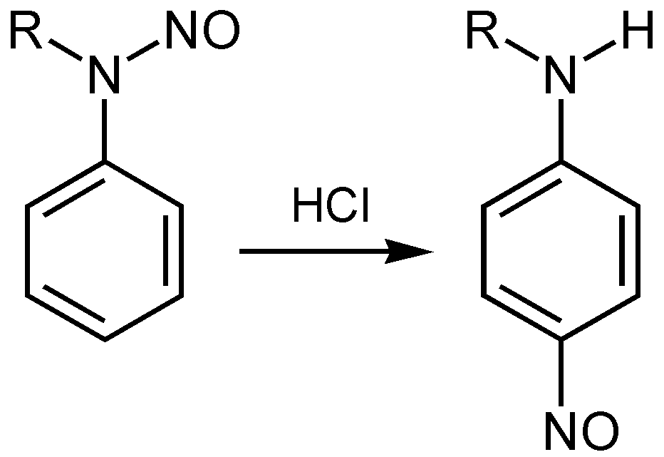 Description: Scheme of Fischer-Hepp rearrangement. Source = Selfmade. Date = 2 Oct 2006. Made with ChemDraw.